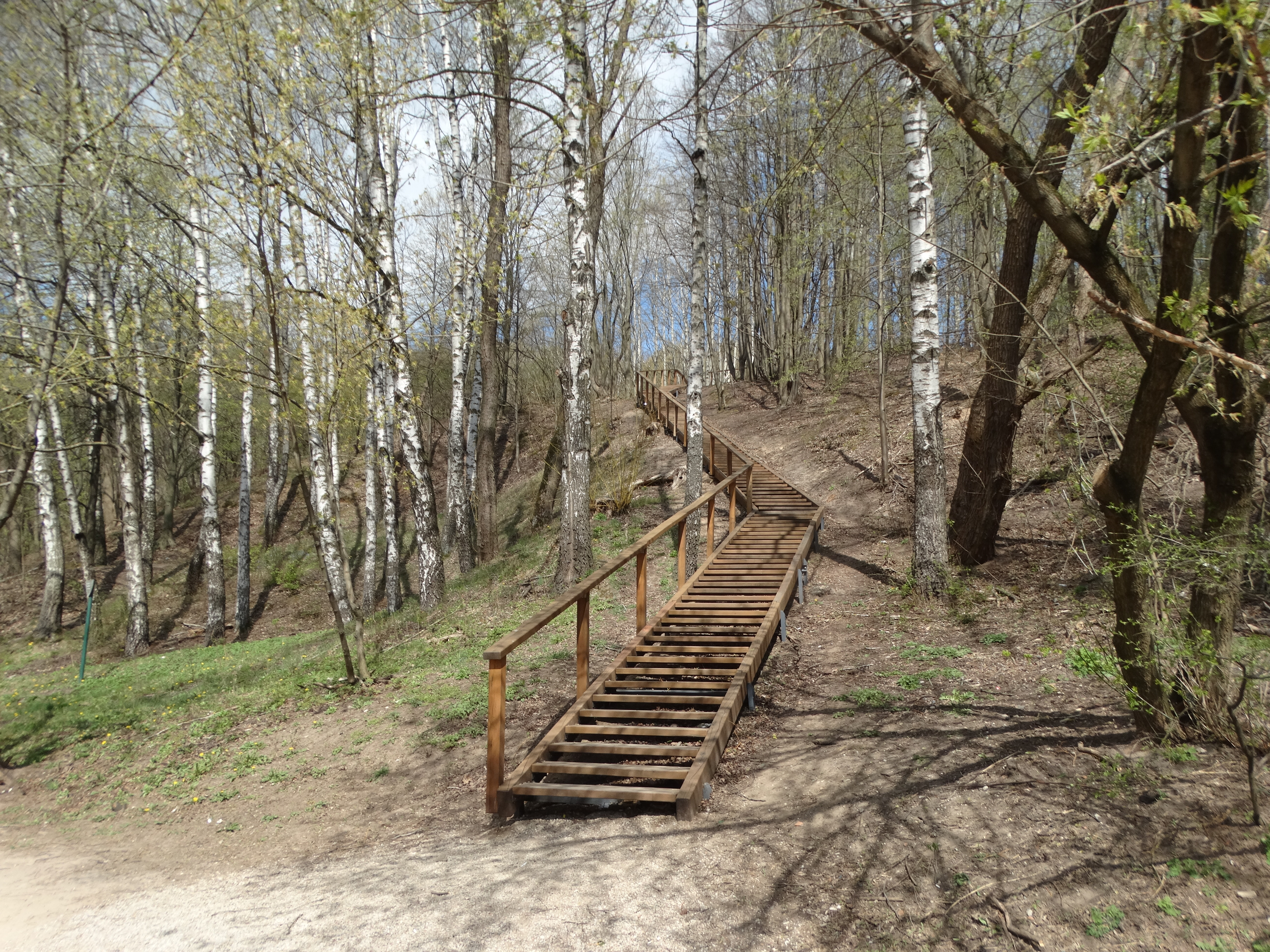 Veršvai hillfort, Kaunas, Lithuania